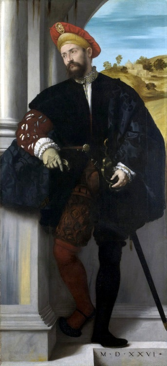 Portrait of a Gentleman // He may have been a member of the Avogadro family of Brescia, for the portrait comes from the palace of direct descendants. Genealogical research suggests that he was Gerolamo II Avogadro, the father of Moroni's 'Knight of the Wounded Foot'.